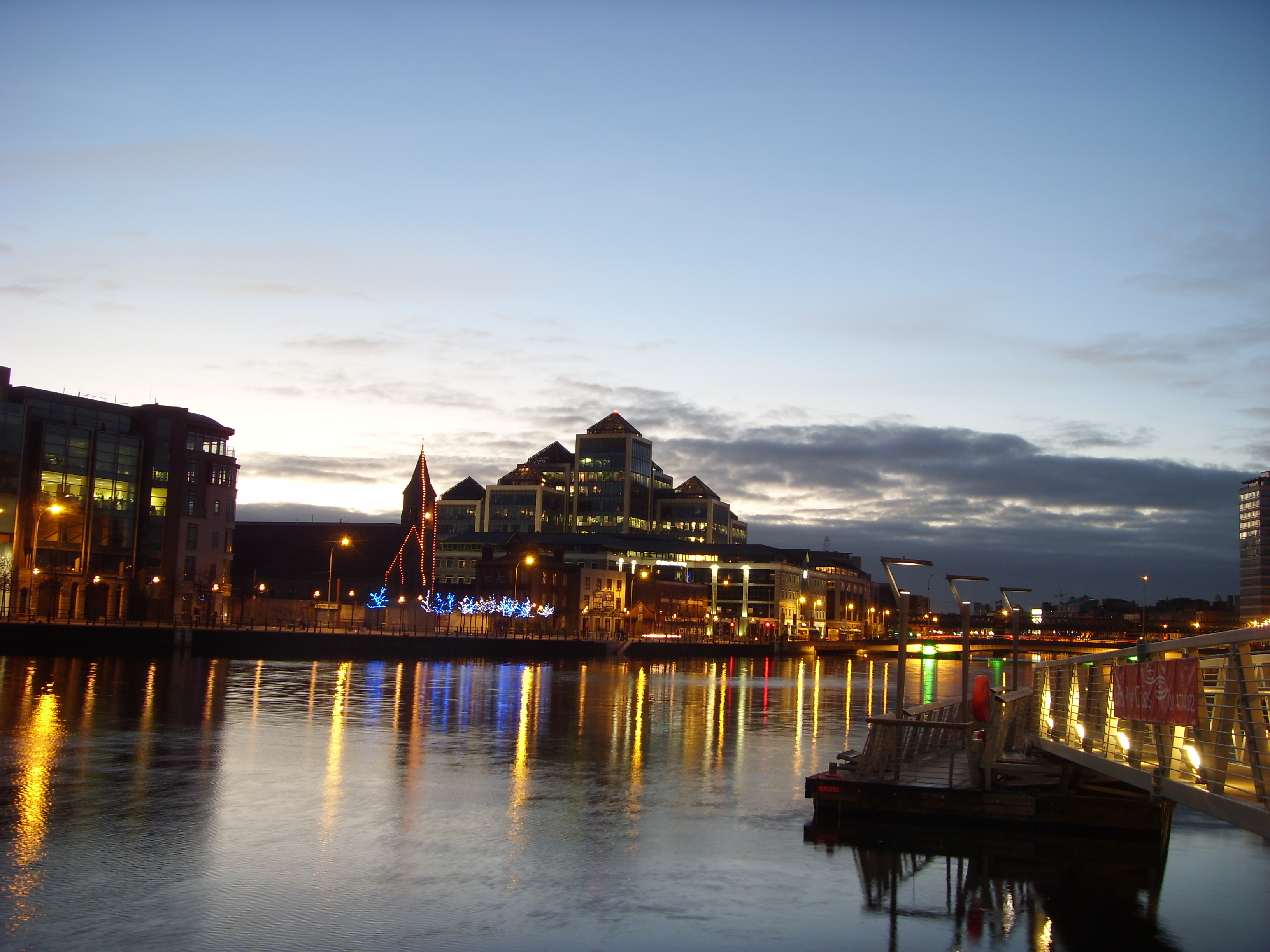 Georges Quay Building at Night